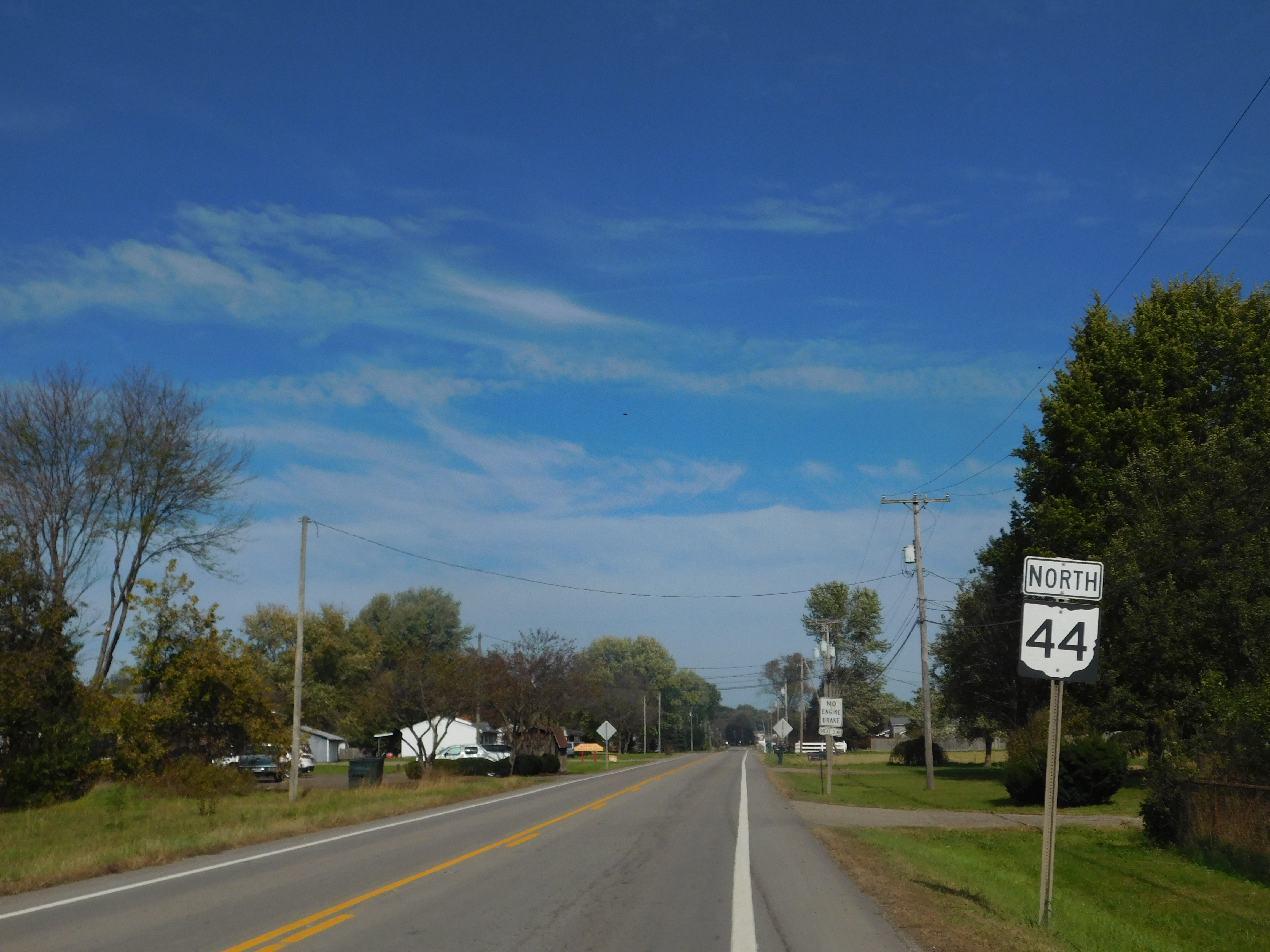 Ohio State Route 44 northbound from Ohio State Route 43 in Waynesburg, Ohio.